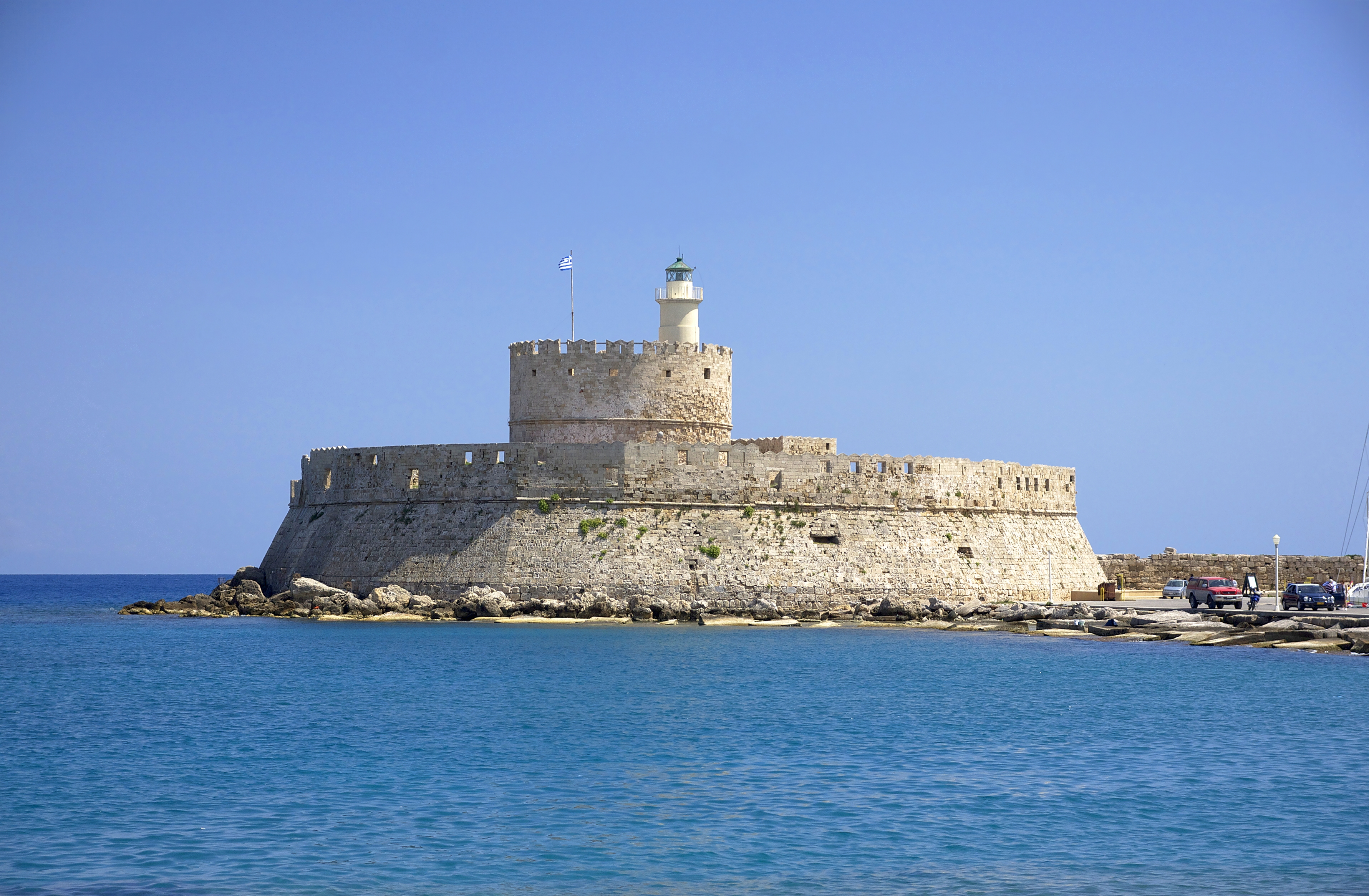 As seen from the sea, the fort Saint Nicolas (and lighthouse), 14th century, entrance of the old harbour of Rhodes, Greece.